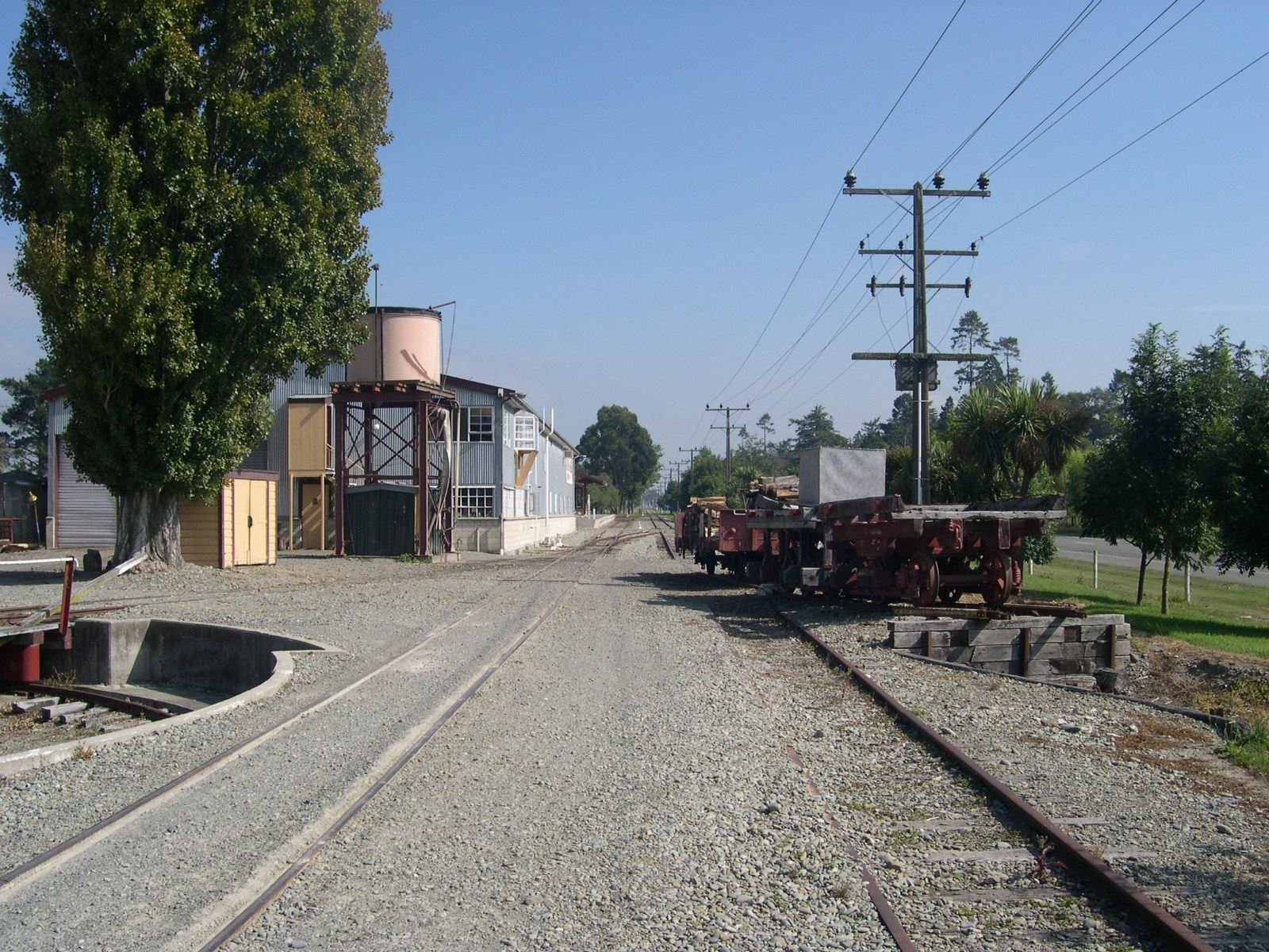 Yard of the Pleasant Point Museum and Railway, South Island New Zealand